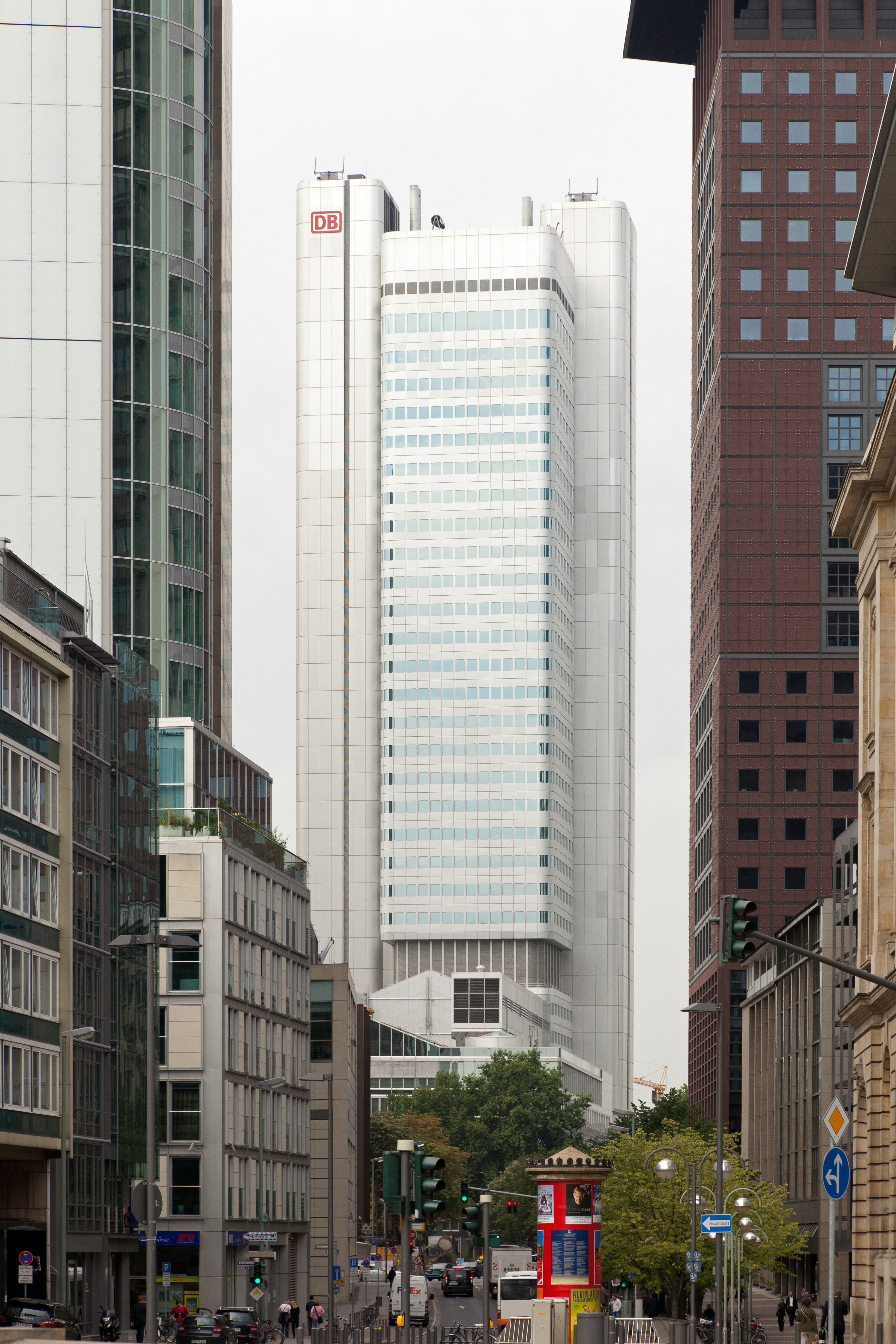 Silver Tower in Frankfurt, Germany.